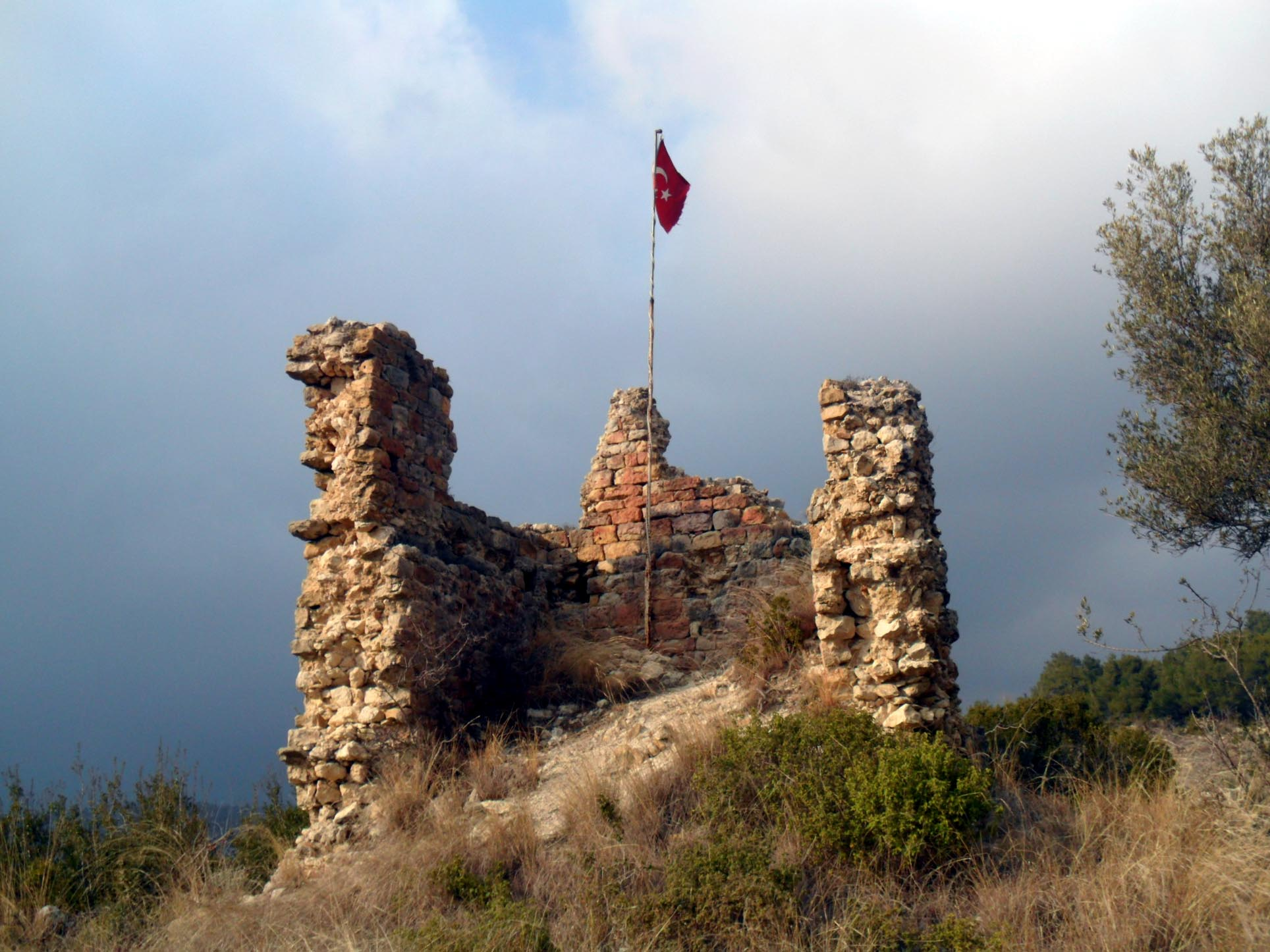 Cemilli Castle in Mersin Province, Turkey